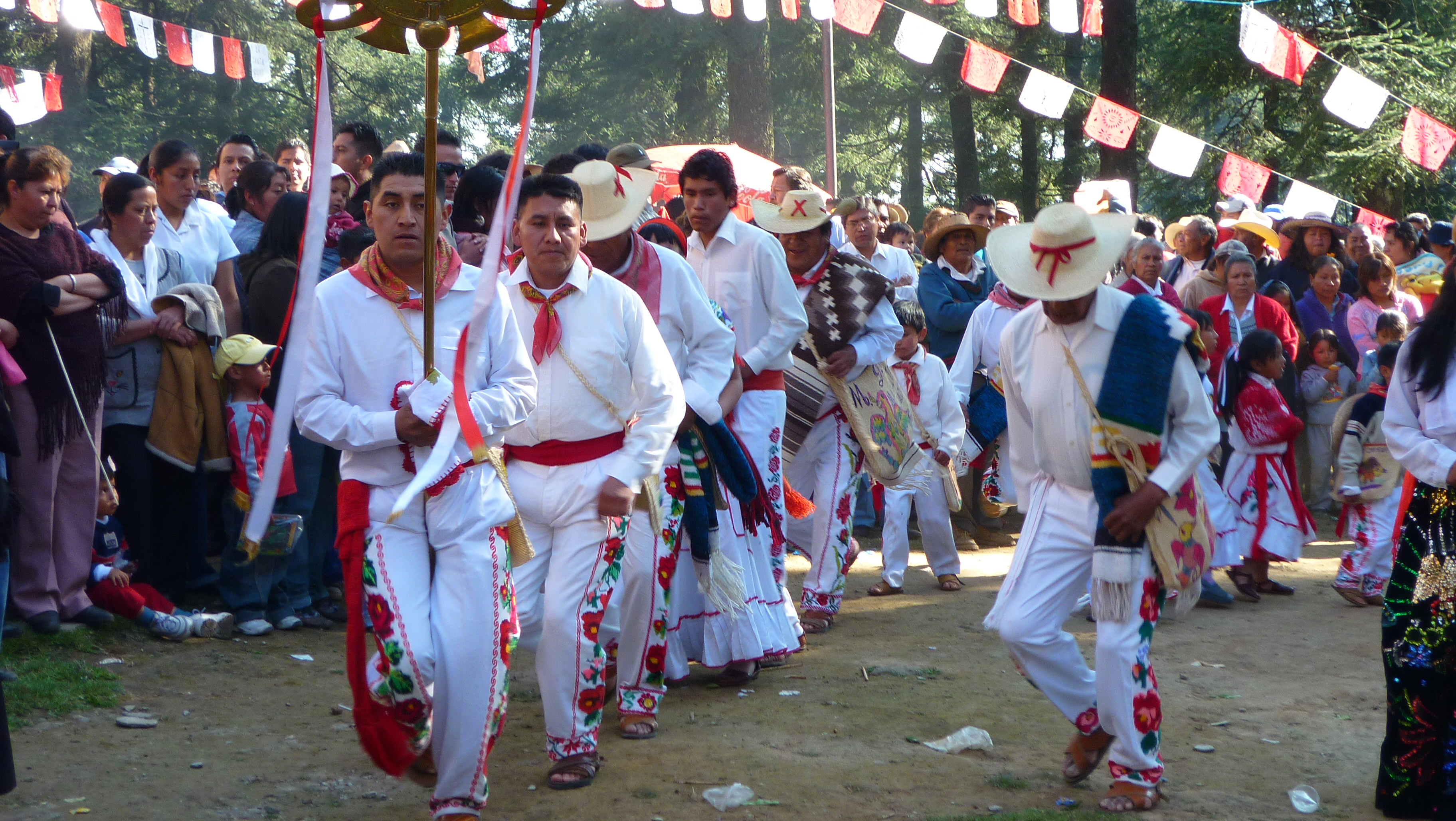 Dancers from the Otomí village of San Jeronimo Acazulco, Mexico state perform the "Danza de los Arrieros" at the feast of the Apparition of "El Divino Rostro" on November 8th 2009. Photo taken by Magnus Pharao Hansen. This photo has been taken in the country: Mexico